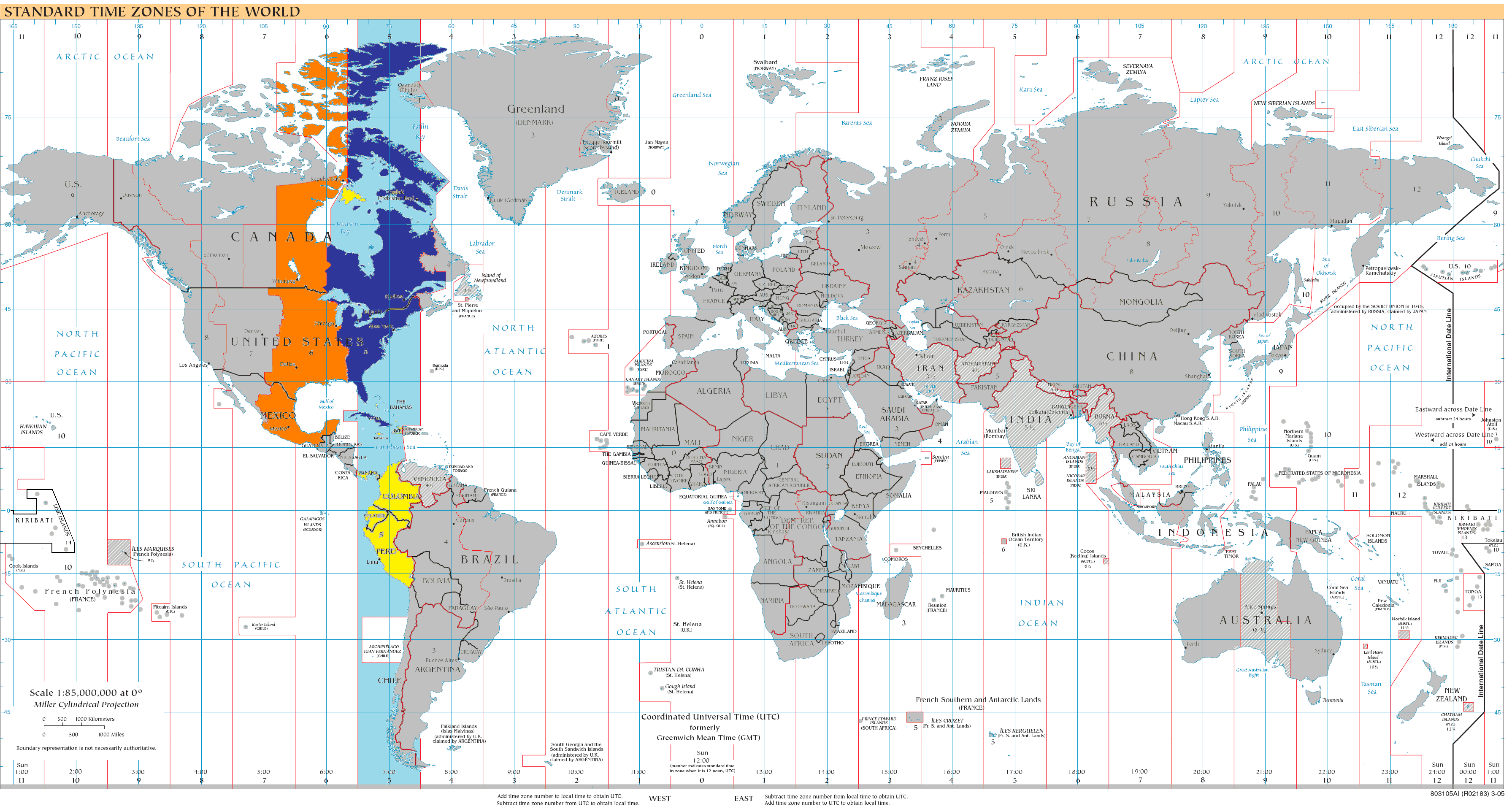 World map of time zones as of 2008, on the Miller Cylindrical Projection and with highlighted UTC-5 zone. Yellow - UTC-5 all year round Dark Blue - UTC-5 during Northern Winter Orange - UTC-5 during Northern Summer